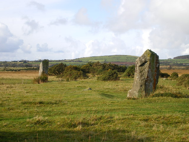 Between the Standing Stones. Looking more or less westwards, over to Mynydd Bach (Little Mountain) 246835 in SN1029. Judging by their location and alignment, these stones must surely be contemporary with the nearby stone circle.